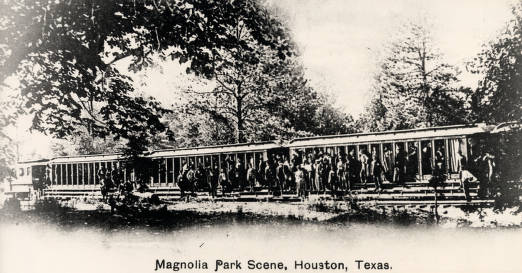 Magnolia Park scene